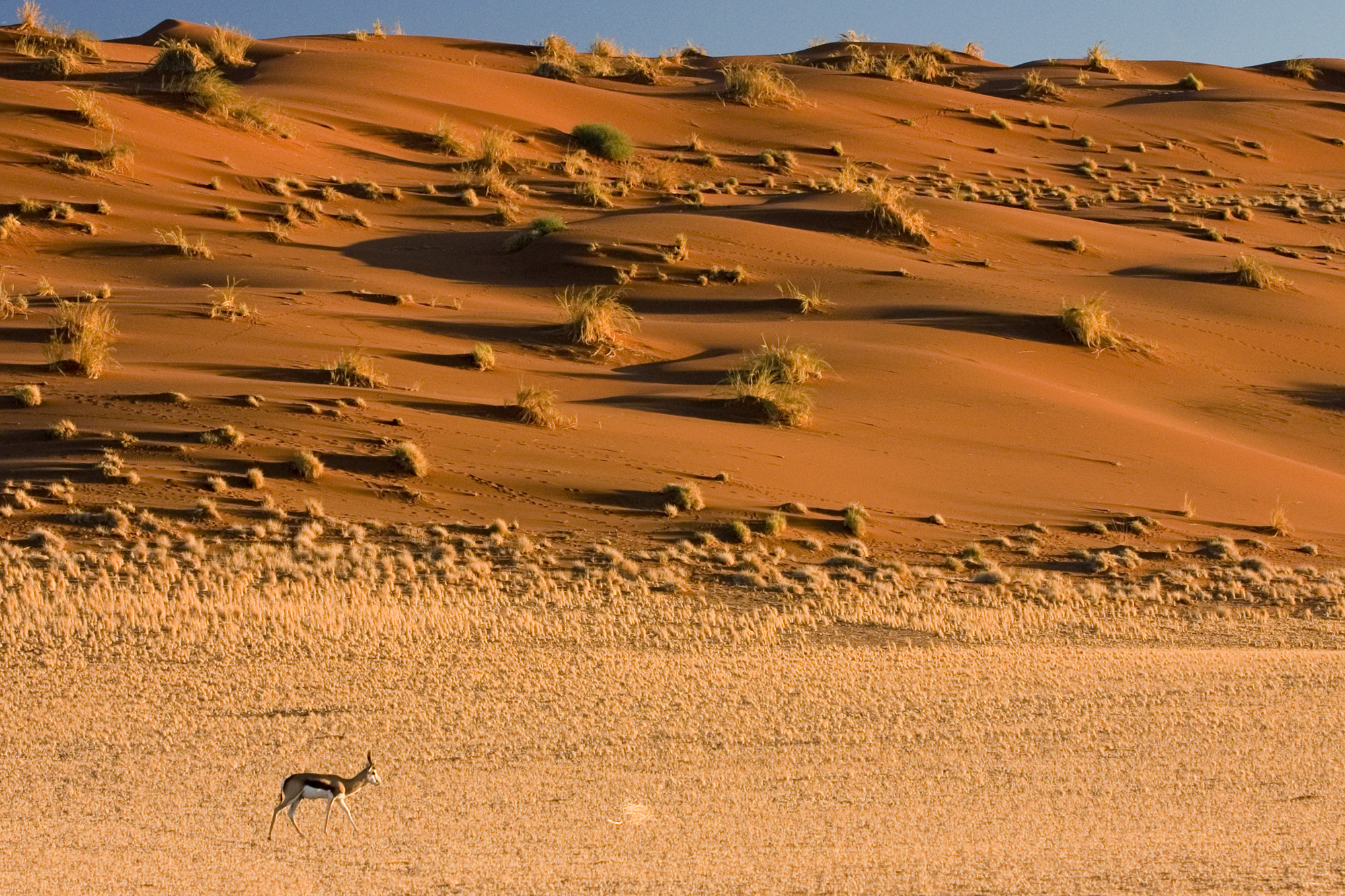 Springbok Antelope (Antidorcas marsupialis) in Sossusvlei region, Namib-Naukluft National Park, Namib Desert, Namibia.